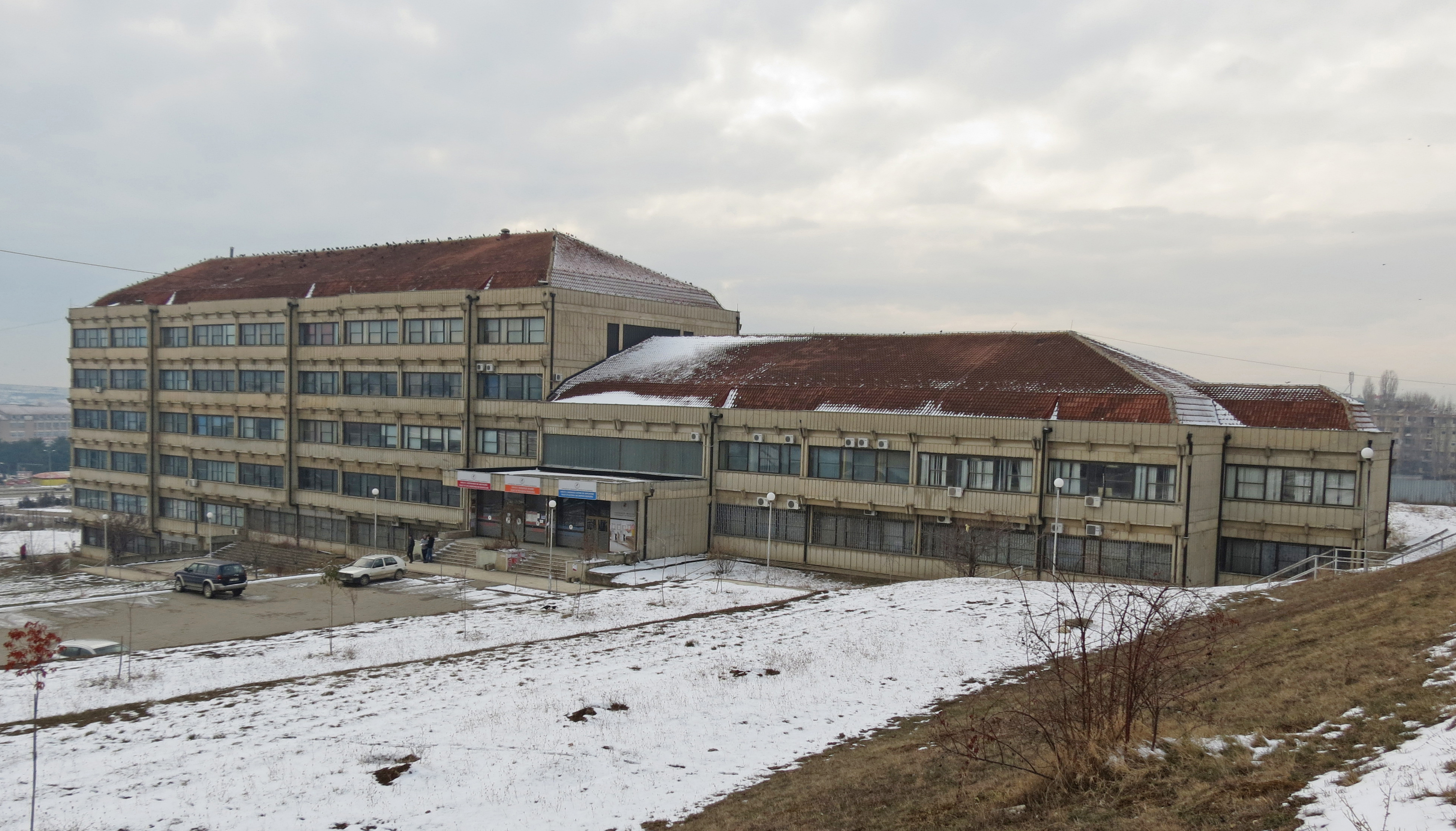 University of Pristina in Kosovo: Faculty of Civil Engineering and Architecture, Faculty of Mechanical Egineering, Faculty of Electrical and Computer Engineering.